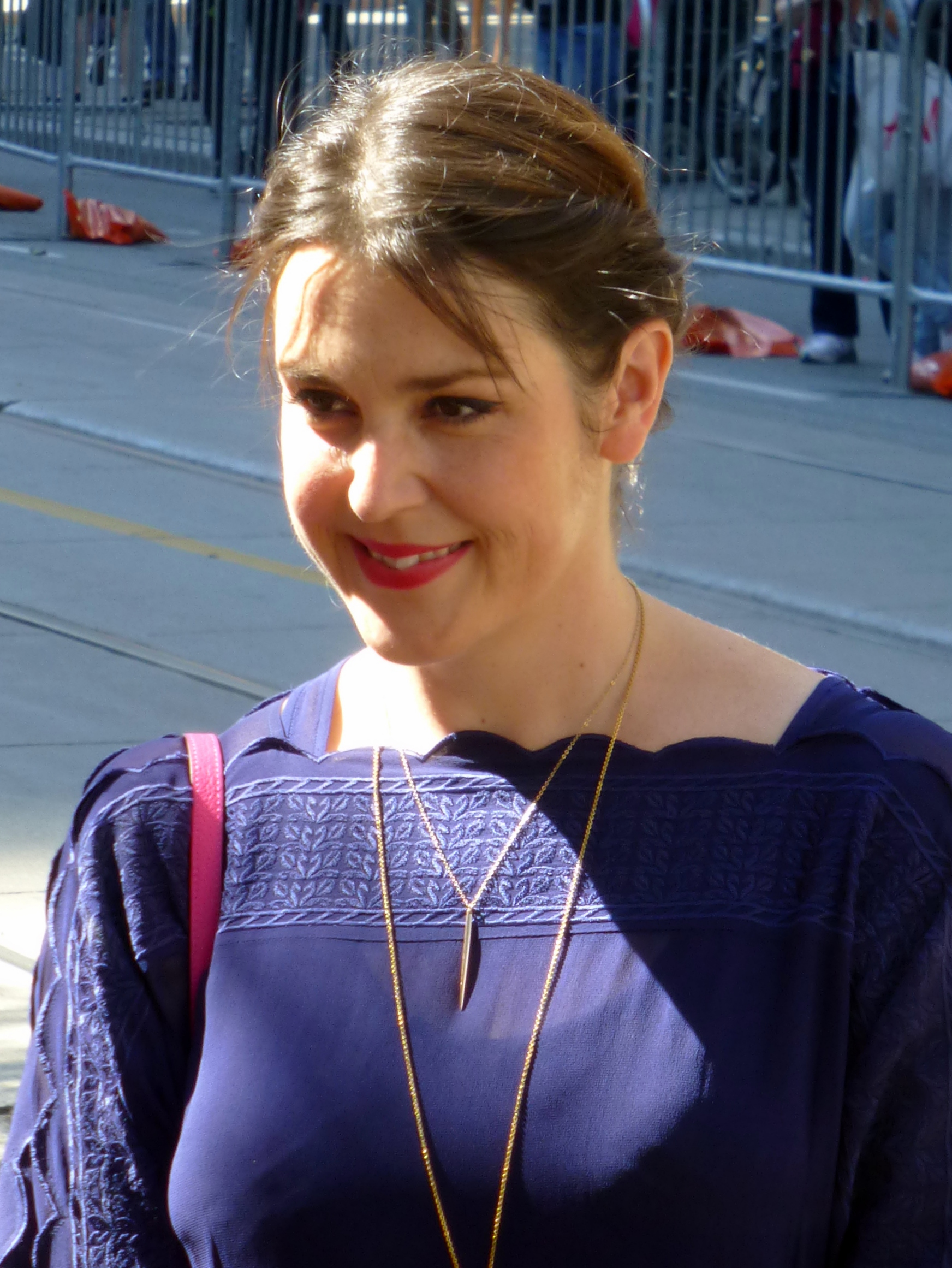 Lynskey at Meddler Film Festival 2015